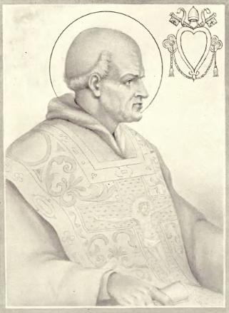 Illustration of Pope John I